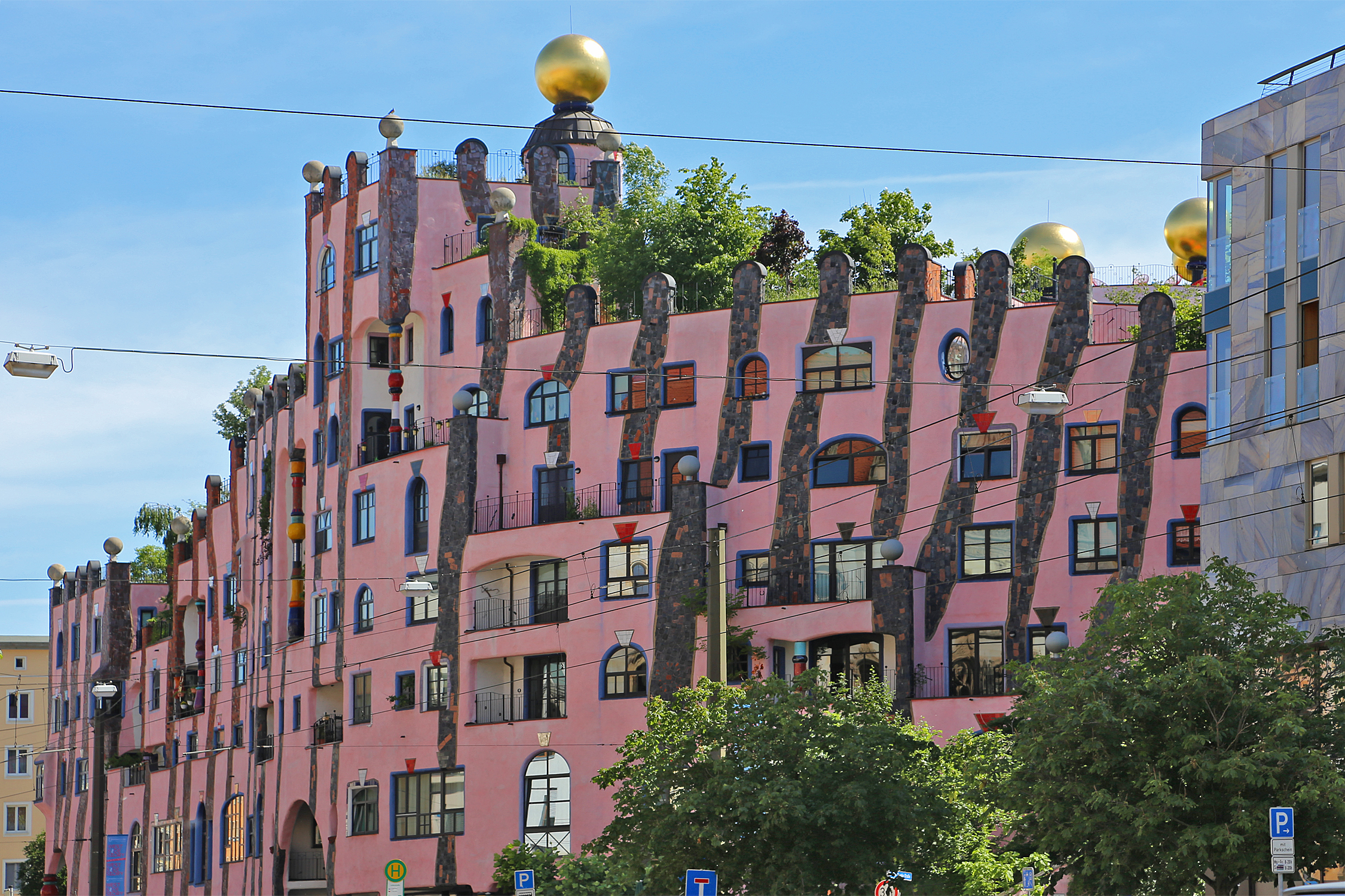 Green citadel (Grüne Zitadelle) of Magdeburg - was designed by Friedensreich Hundertwasser and finished in 2005.